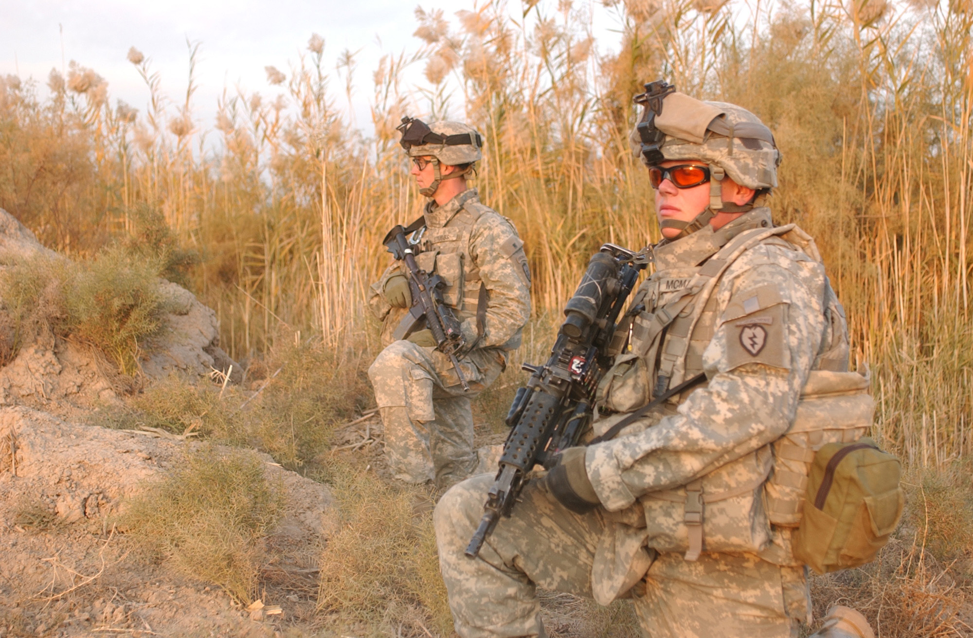 U.S. Army Spcs. Ryne Stubbs and James McManus provide security in a field during a patrol near Bahbahni, Iraq, on Dec. 6, 2006. Stubbs and McManus are both assigned as paratroopers to Charlie Company, 1st Battalion, 501st Parachute Infantry Regiment.